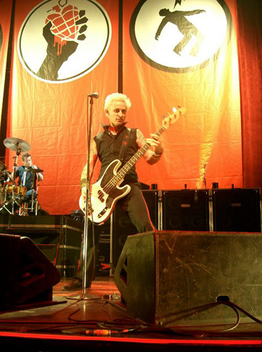 Mike Dirnt (center) and Tré Cool {left}, musicians, of band Green Day. Photograph was taken in Cardiff during the American Idiot tour, using a Casio QV-R40 35mm.